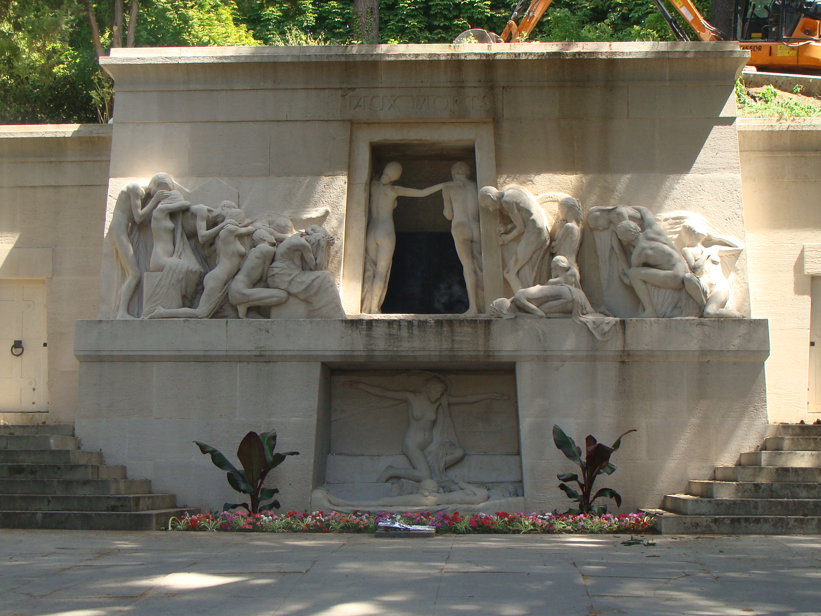 Memorial to the Dead, Pere Lachaise Cemetery, Paris